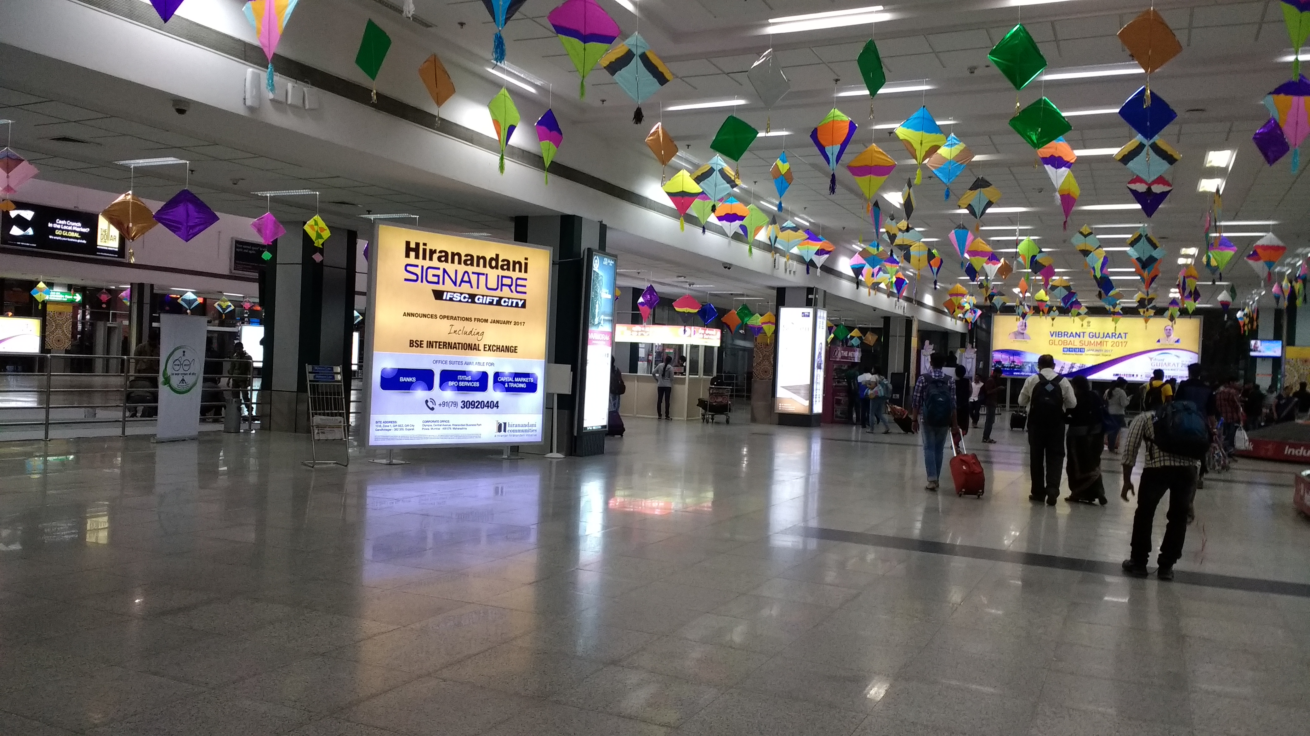 Airport